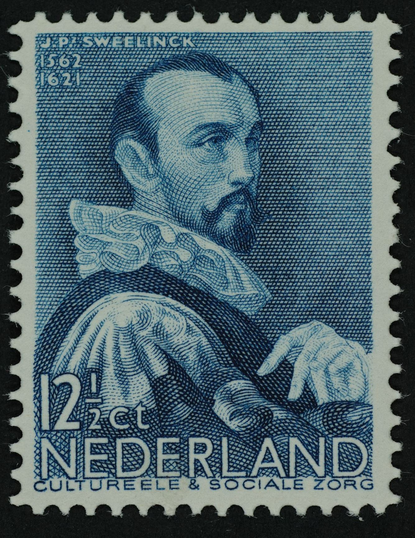 Jan Pietersz. Sweelinck. Dutch stamp 1935. ("Zomerpostzegel"). Design by Willem Konijnenburg, engraving by Johannes Jacobus Warnaar, printing by Joh. Enschedé & Zn.